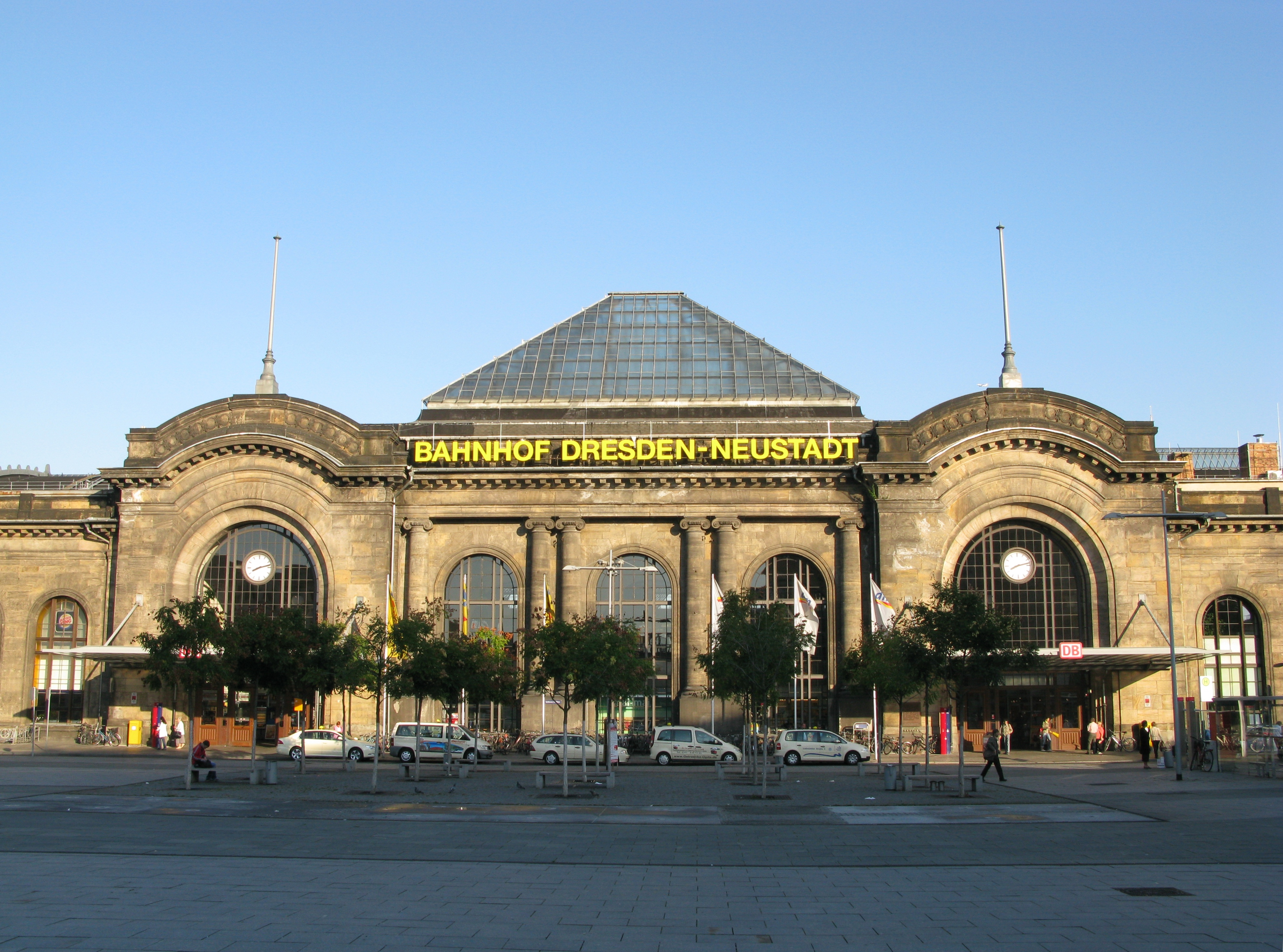 Middle section of railway station Dresden-Neustadt